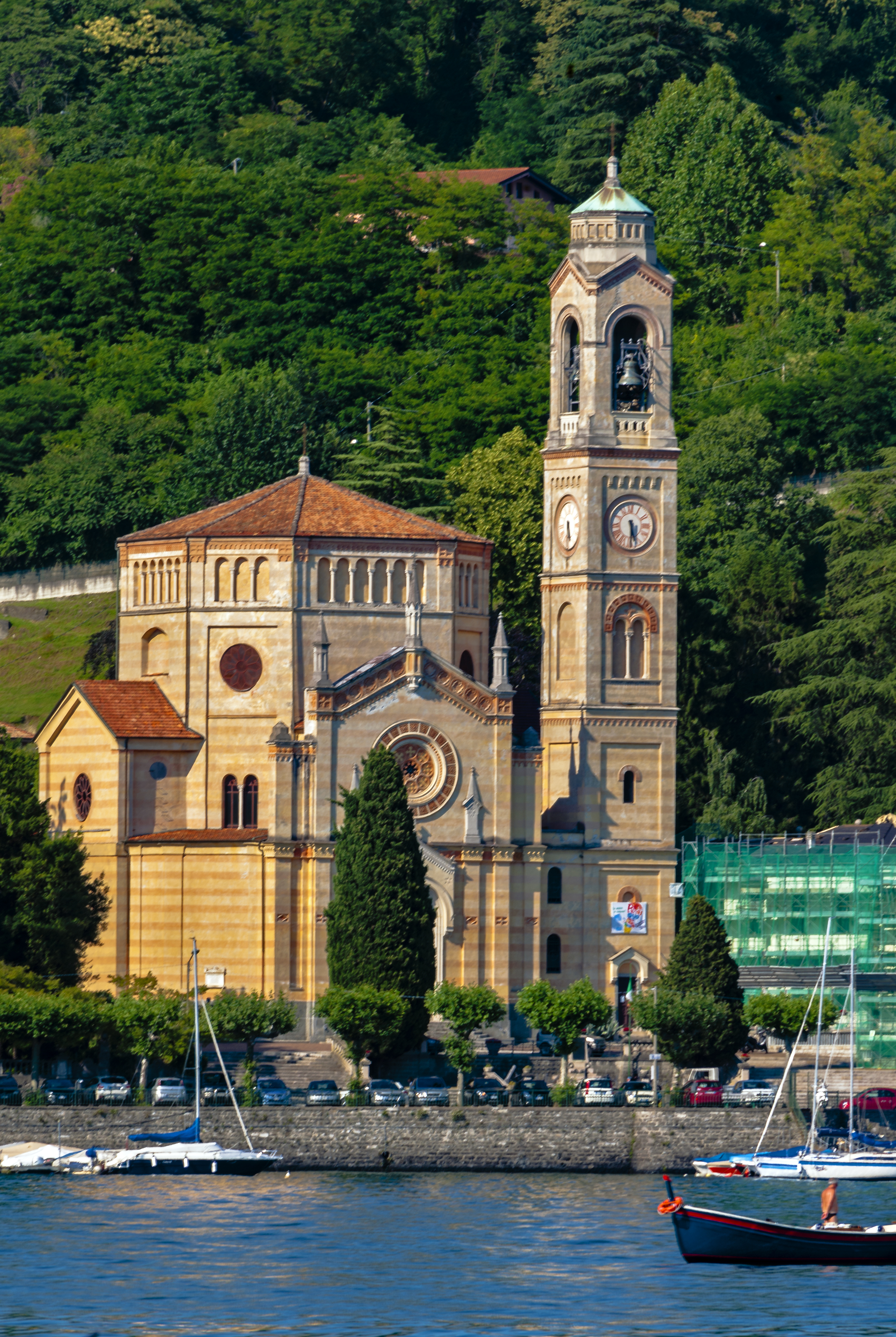 Chiesa do San Lorenzo, Tremezzo, seen from the ferry on Lake Como